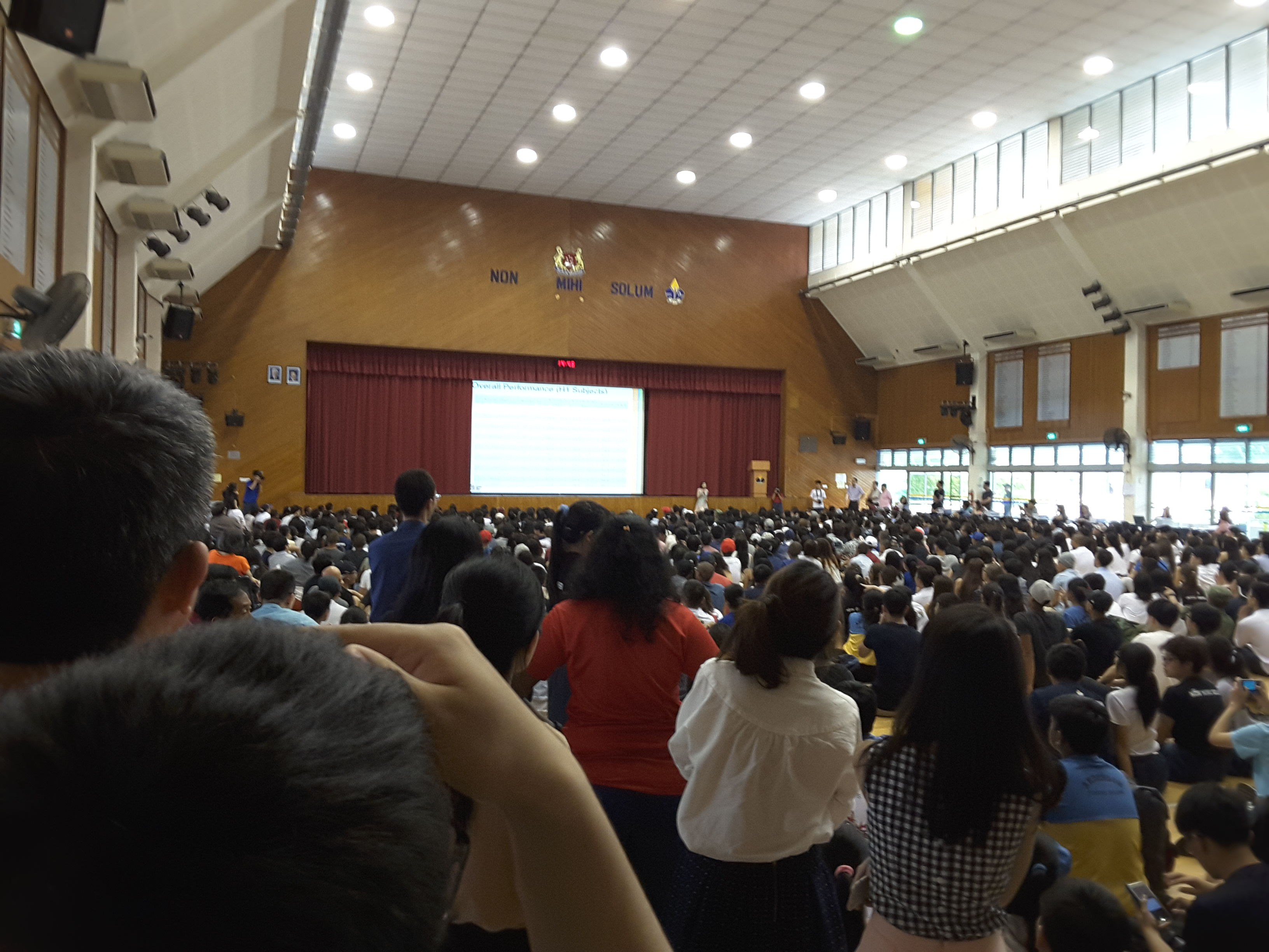 Anderson Junior College Alumni awaiting the release results at the school hall in 2016